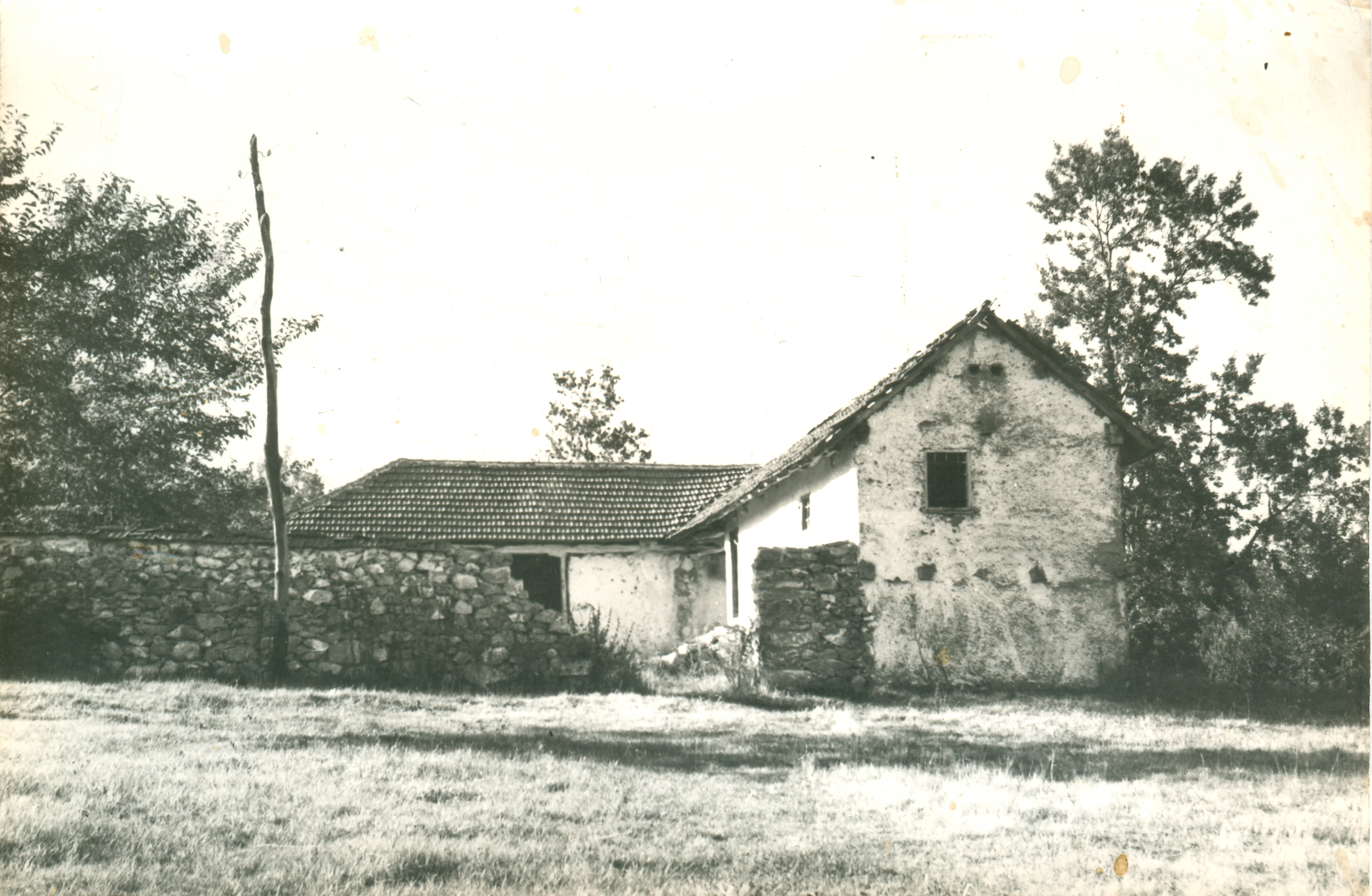 Headquarter of the Krajina Partisan Detachment in Stevanske livade near Sikole, Negotin Srpski (latinica): Štab Krajinskog partizanskog odreda na Stevanskim livadama kod sela Sikole u opštini Negotin